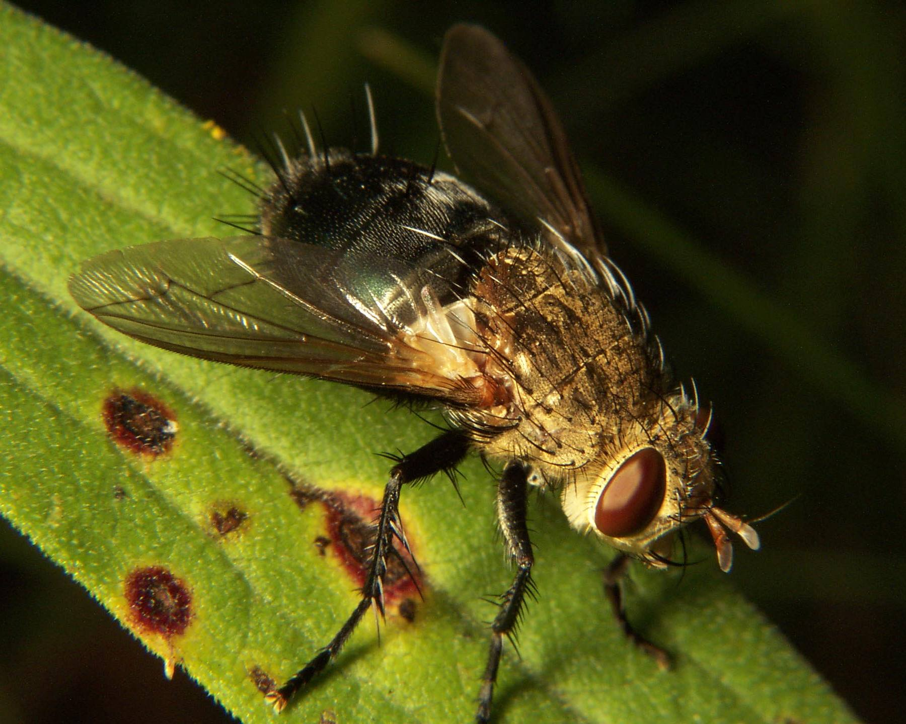 Live adult Tachinid Fly, Archytas species Order Diptera / Suborder Brachycera / Infraorder Muscomorpha / Family Tachinidae / Subfamily Tachininae / Tribe Tachinini Genus Archytas Jaennicke, 1867 / Size: 13mm